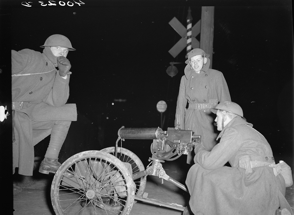 National Guard with machine gun overlooking Chevrolet factories number nine and number four. Flint, Michigan.